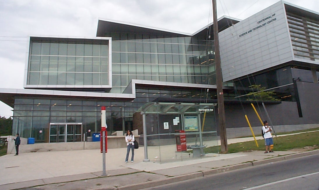 I took this picture, of Centennial College Science and Technology Centre at Morningside and Ellesmere in Scarborough, Ontario